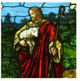 Jesus as shepard 2